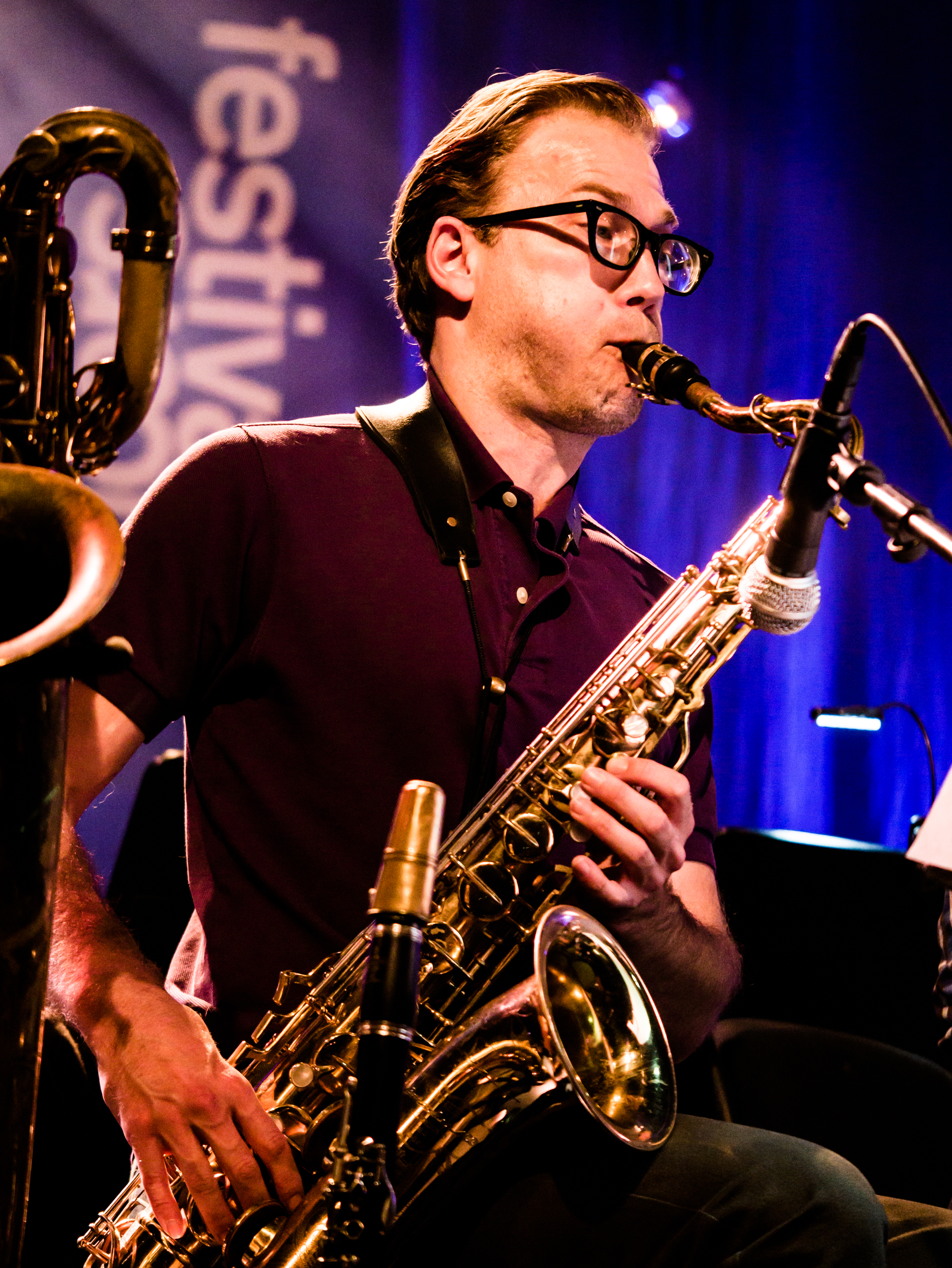 US-American jazz musician Matt Bauder at the Moers Festival 2015